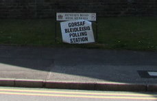 Gorsaf Bleidleisio/Polling Station notice in Tonna. On Thursday May 5th 2016, the bilingual notice is attached to the bilingual Henfaes Road/Heol Henfaes name sign on the north side of Noddfa Newydd Baptist Church. The polling station entrance is on the opposite side of the church.